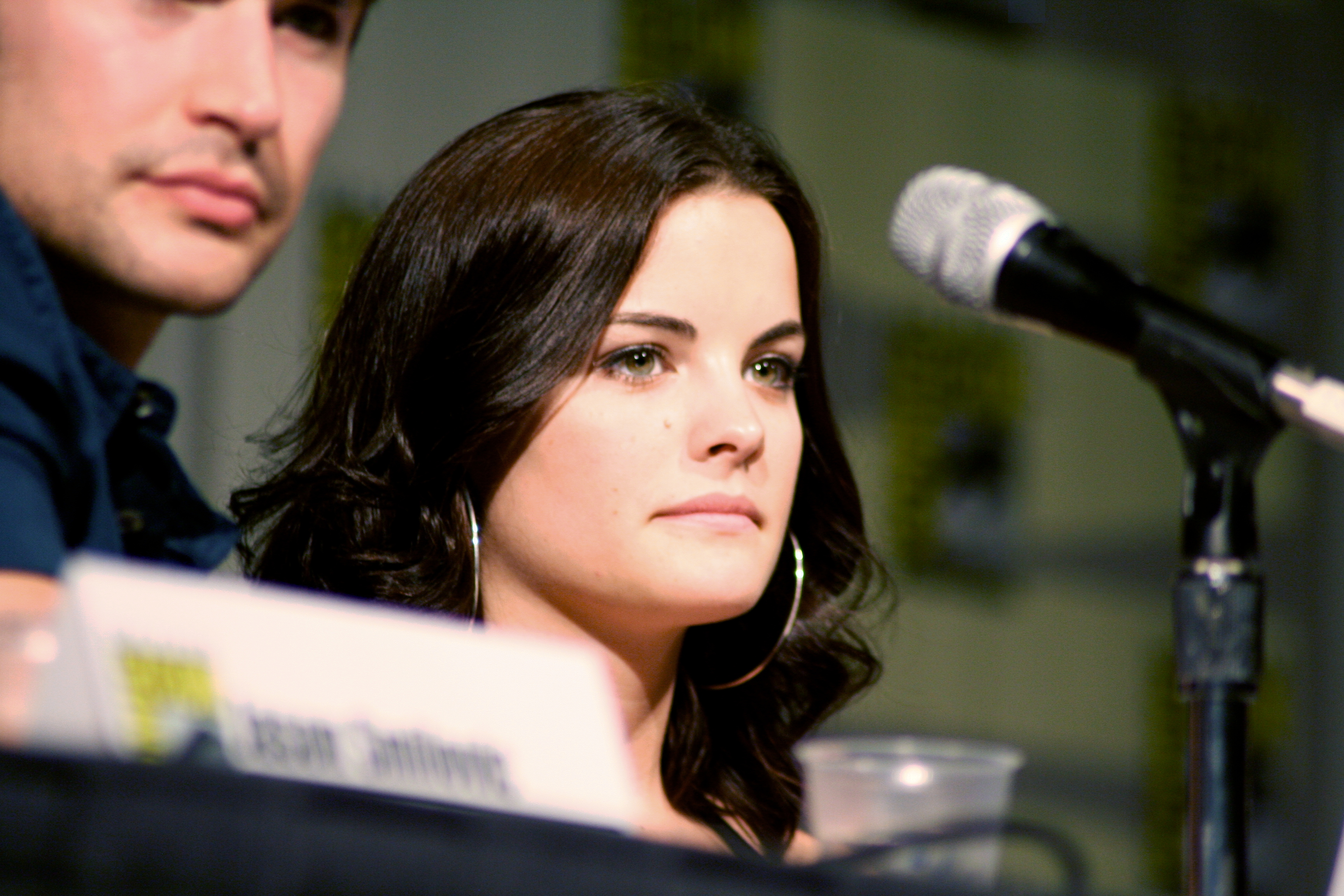 Jaimie Alexander at the 2008 San Diego Comic-Con International, taken on July 26, 2008 using a Canon EOS Digital Rebel XT.